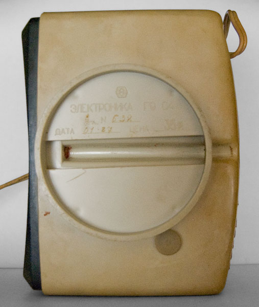 «Elektronika 13» soviet digital clock. Made in 1987. Bottom view.